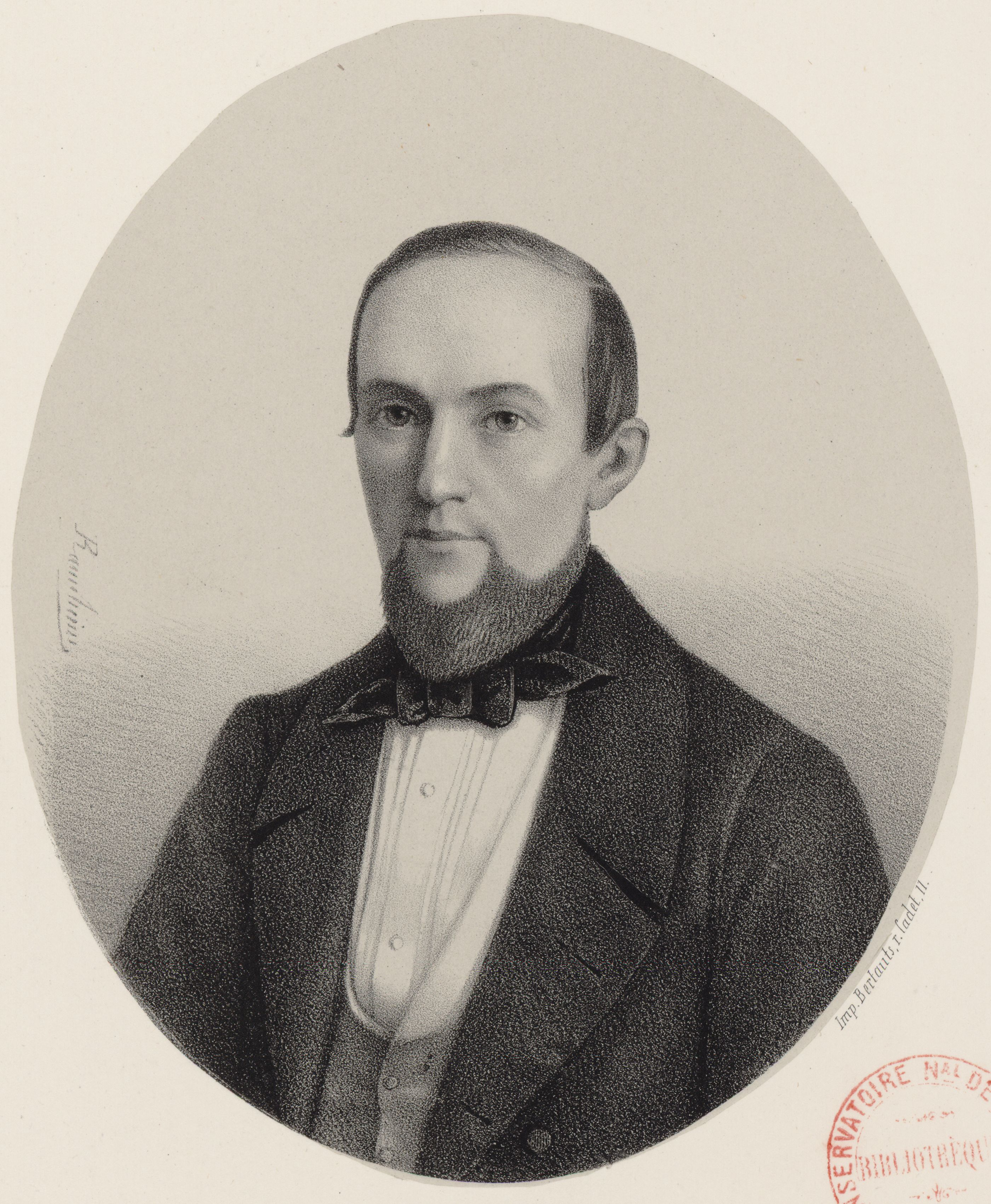 French organist and composer Jacques-Louis Battmann (1818-1886) by Hermann Raunheim (1817-1895).